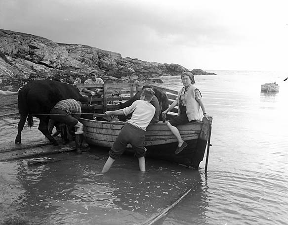 Teitl Cymraeg/Welsh title: Pererindod i Ynys Enlli. Ffotograffydd/Photographer: Geoff Charles (1909-2002) Nodyn/Note: Image shows artist Brenda Chamberlain on a boat transporting cattle, during a pilgrimage to Bardsey Island. Dyddiad/Date: August 11, 1950 Cyfrwng/Medium: Negydd ffilm / Film negative Cyfeiriad/Reference: (gch12236) Rhif cofnod / Record no.: 3369684 Rhagor o wybodaeth am gasgliad Geoff Charles yn Llyfrgell Genedlaethol Cymru More information about the Geoff Charles Collection at the National Library of Wales